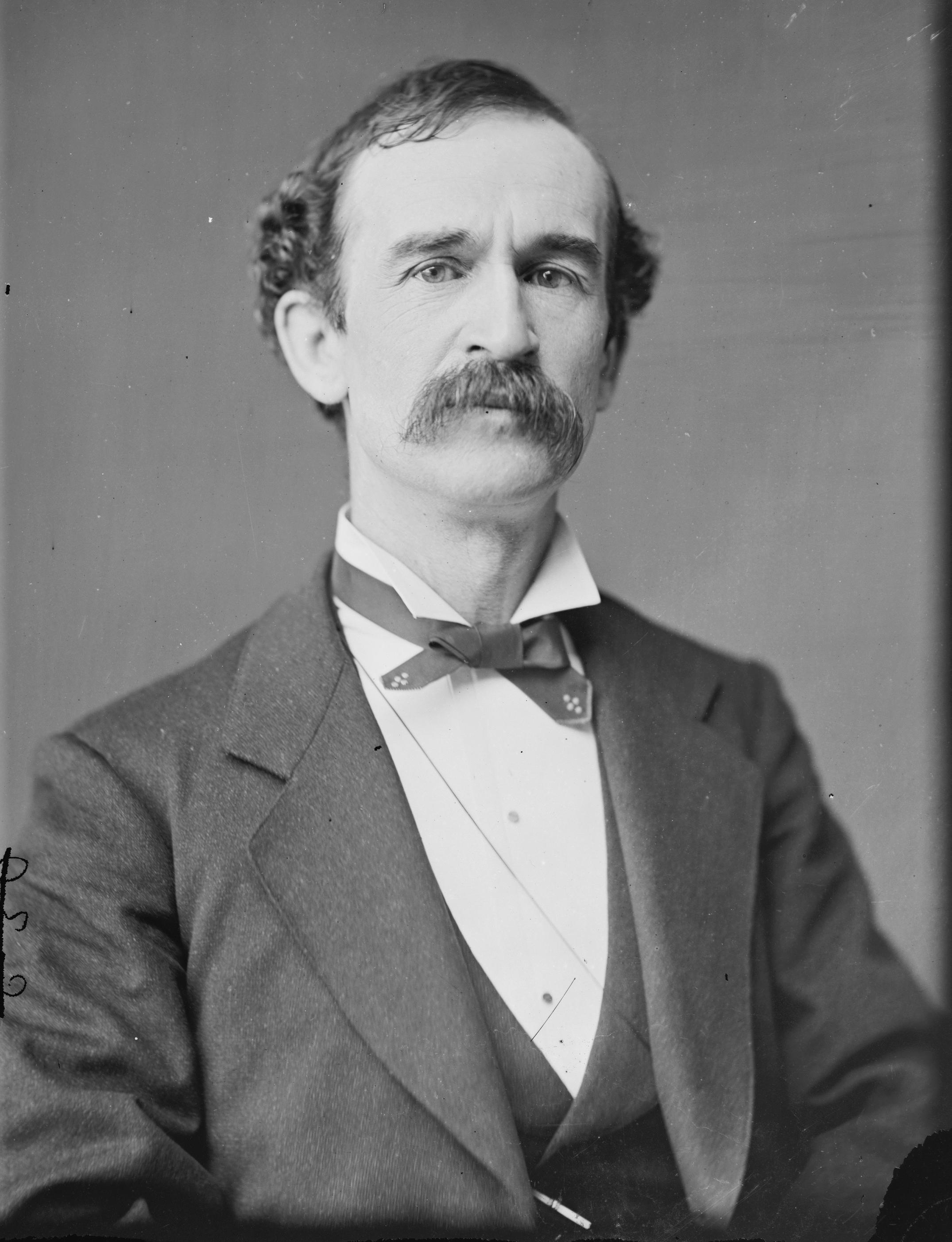 James Herron Hopkins. Library of Congress description: "Hopkins, Hon. Jas. H. of PA".